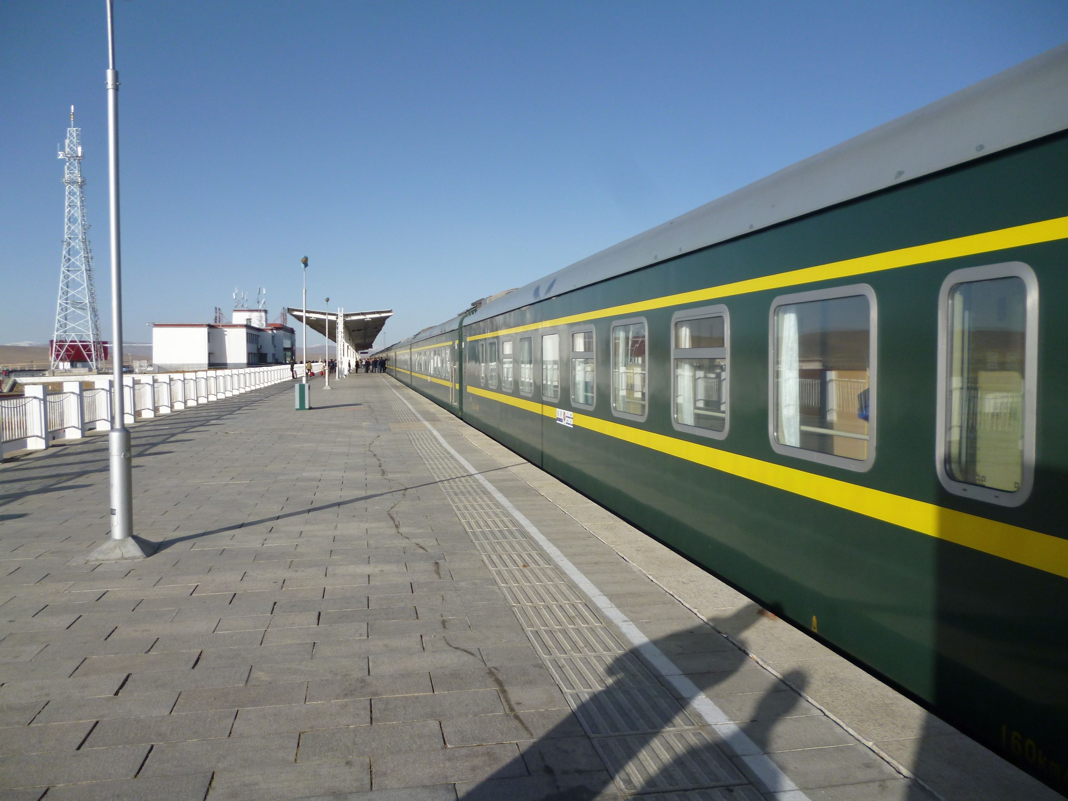 Train Stop in Na Qu 4513 meter high. Lhasa-Tarin (Xining-Lhasa)